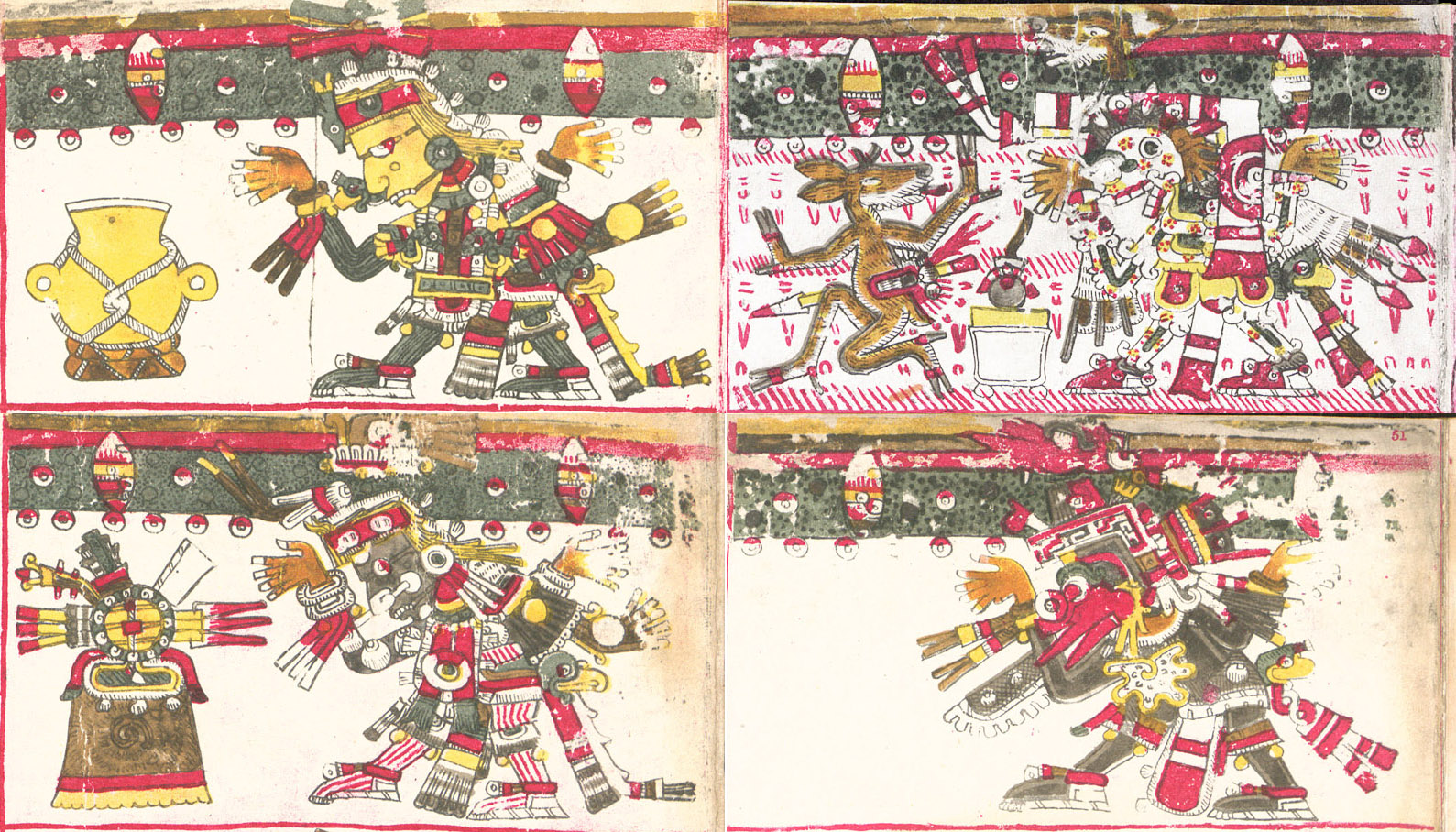 4 Kingdoms in the world described in the Codex Borgia 1.- Cihuatlampa (West) 2.- Mictlampa (North) 3.- Huitztlampa (South) 4.- Tlauhcampa (East)